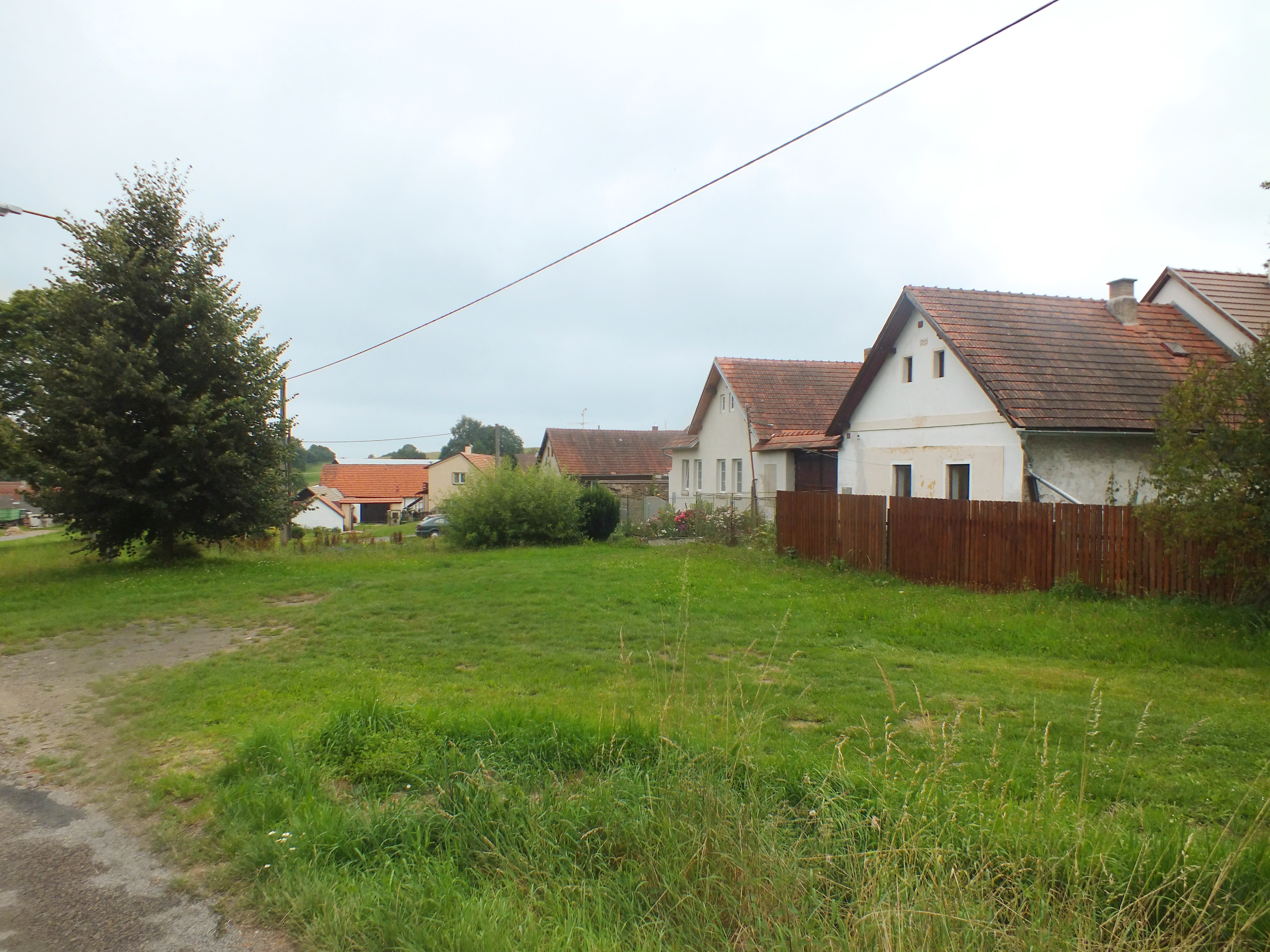 The northern side of the square in Pravětice